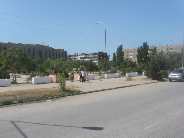 Azerbaijan, Hovsan, Park of Haydar Aliyev